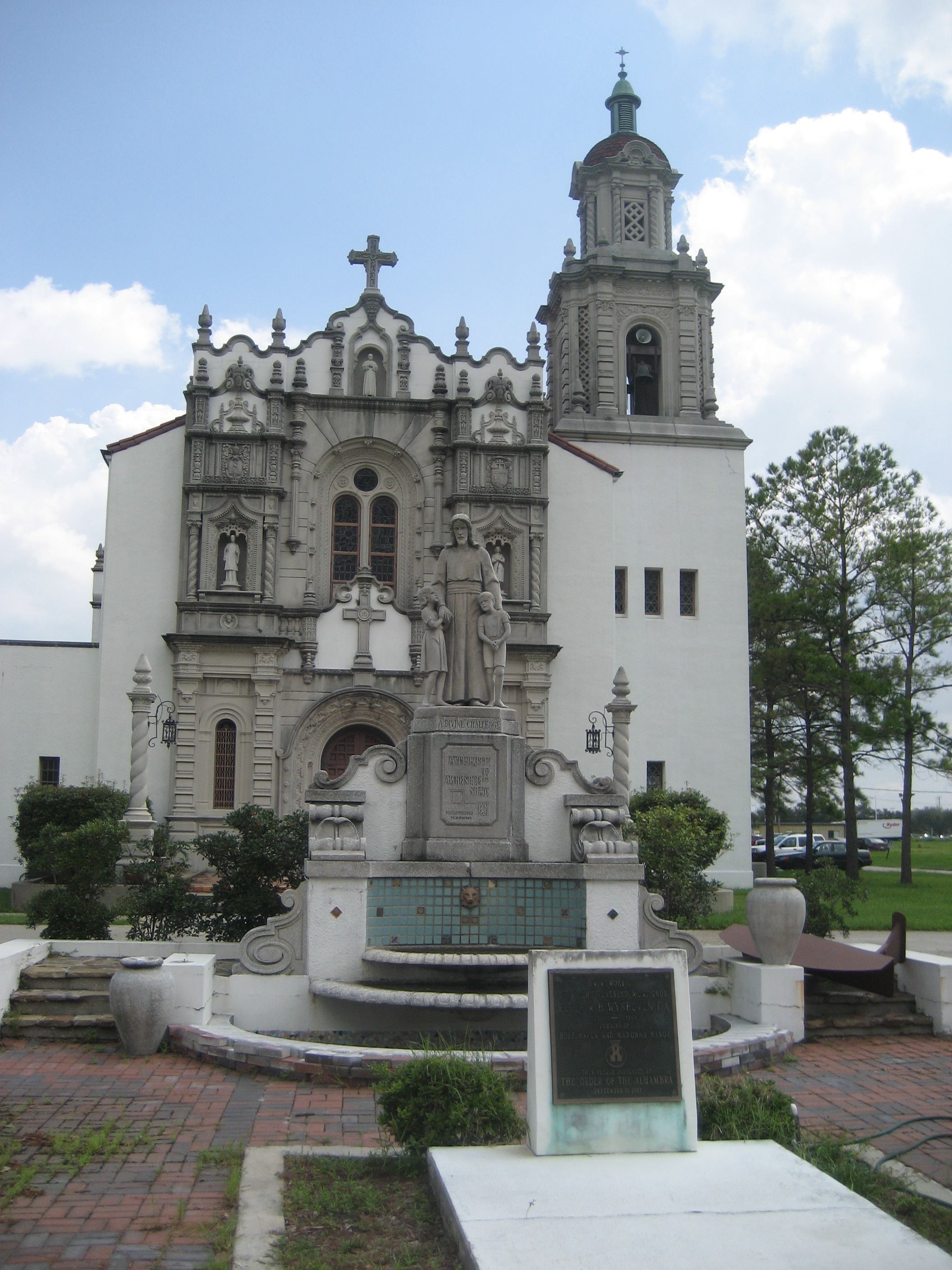 Saint John Bosco church, Marrero, Louisiana